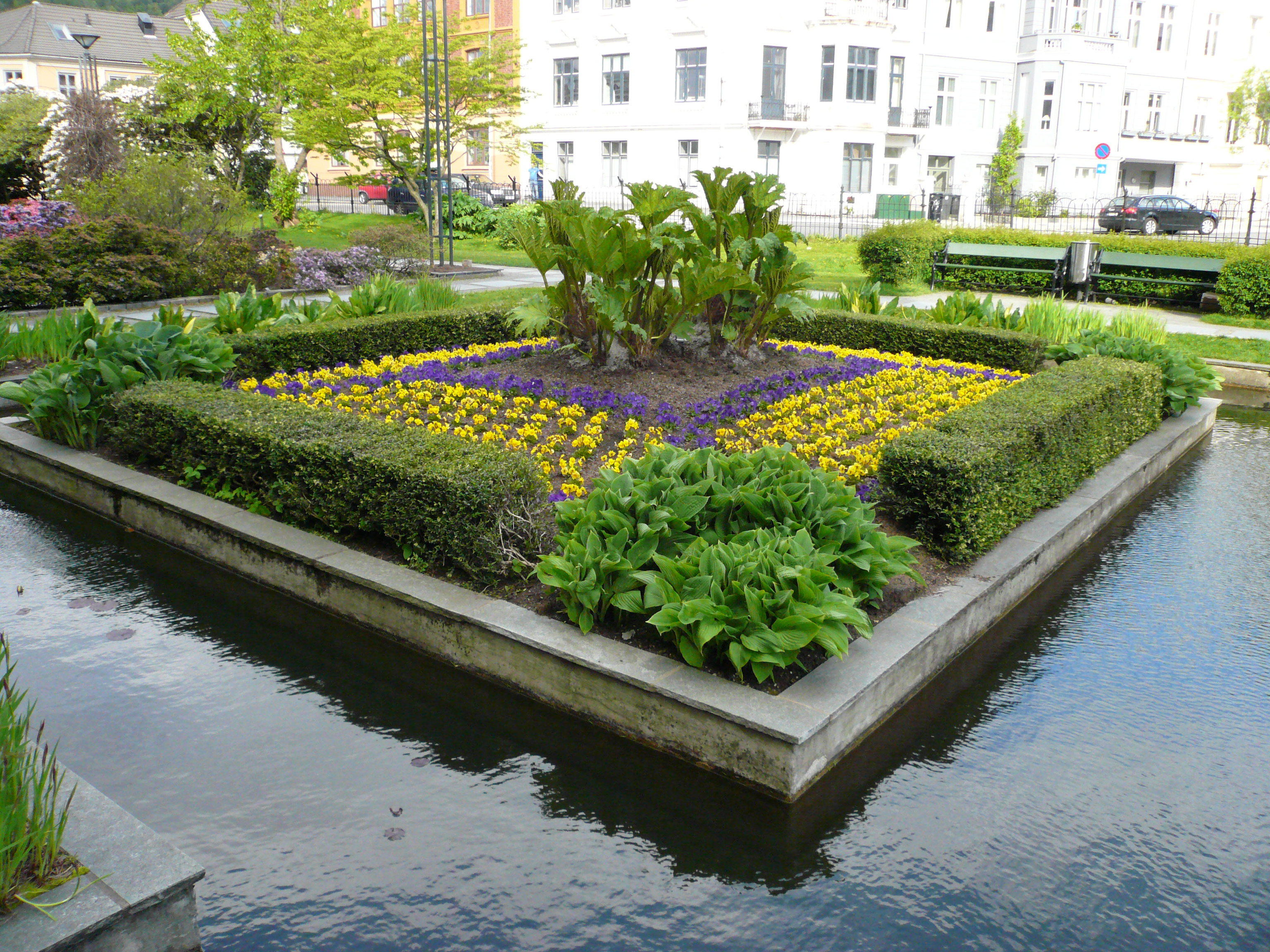 Botanisk hage, Bergen museum